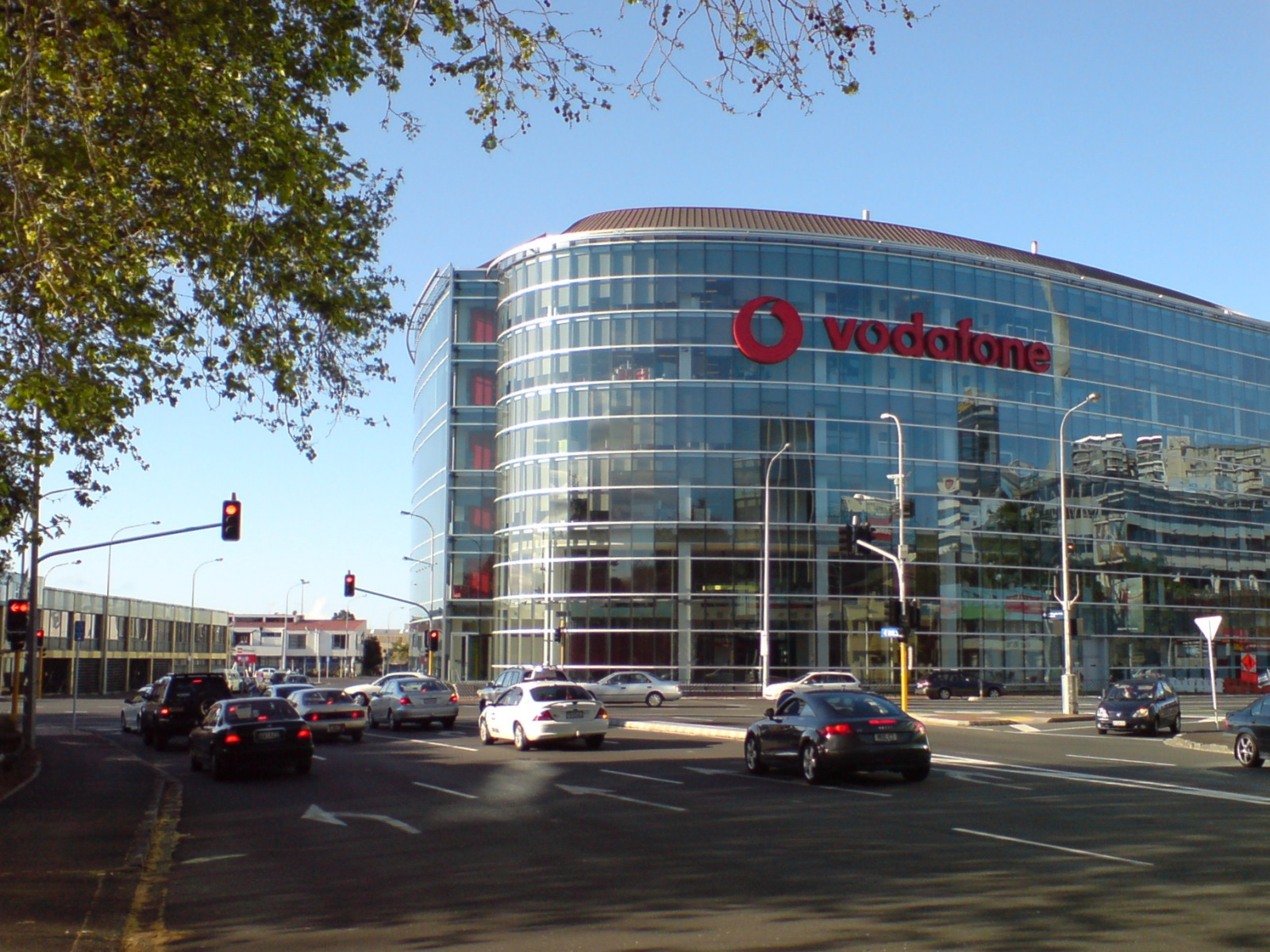 The Vodafone building on Fanshawe Street, corner Halsey street, looking northeast, Auckland City, New Zealand.